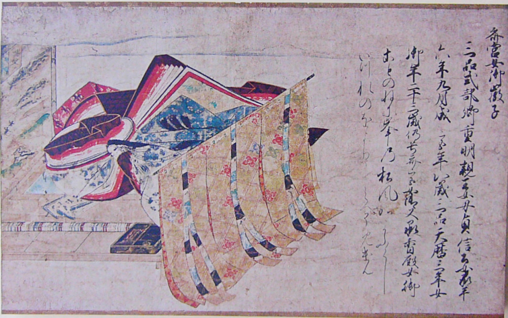 Saigū Nyōgo, Potrait, A fragment of 36 poets scroll, colour on paper, mounted to hanging scroll, about 30x50cm, Kamakura Period, Japan, Freer Gallery, Washington, USA